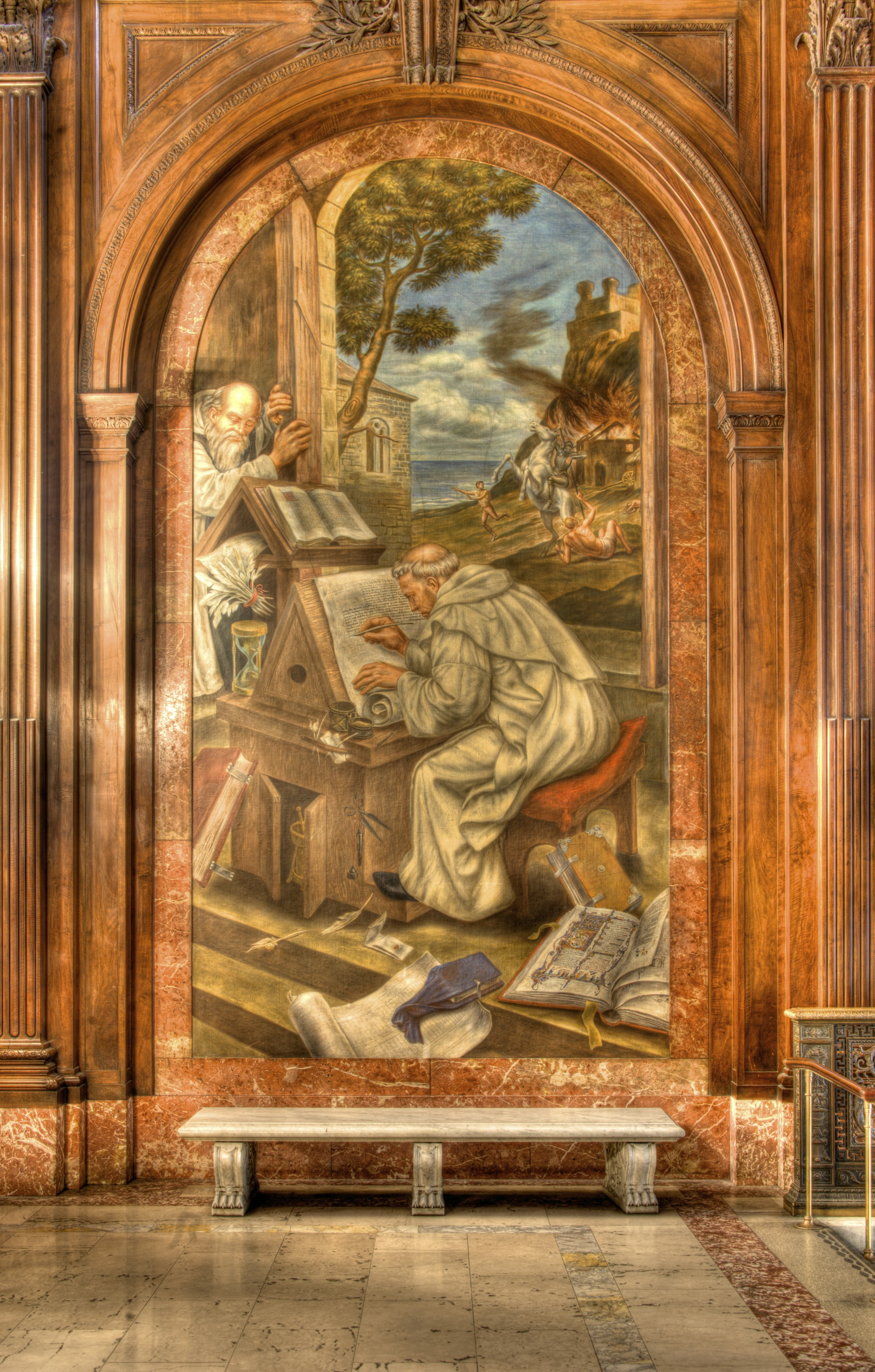 A Monk of the Middle Ages is copying a manuscript while, behind him, is a scene of destruction and rapine (robbing).